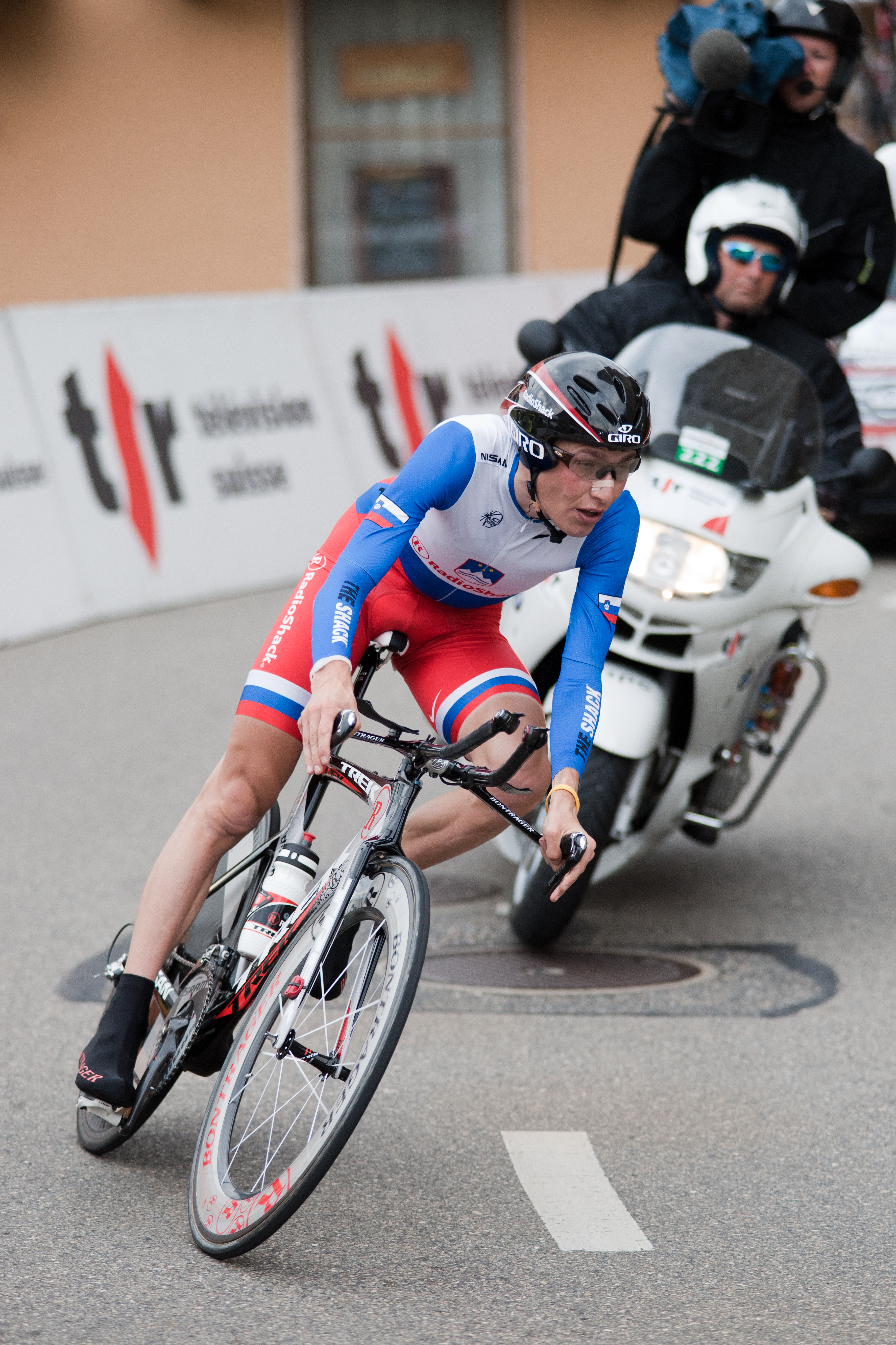 Janez Brajkovic during the 3rs stage of the Tour de Romandie 2010.